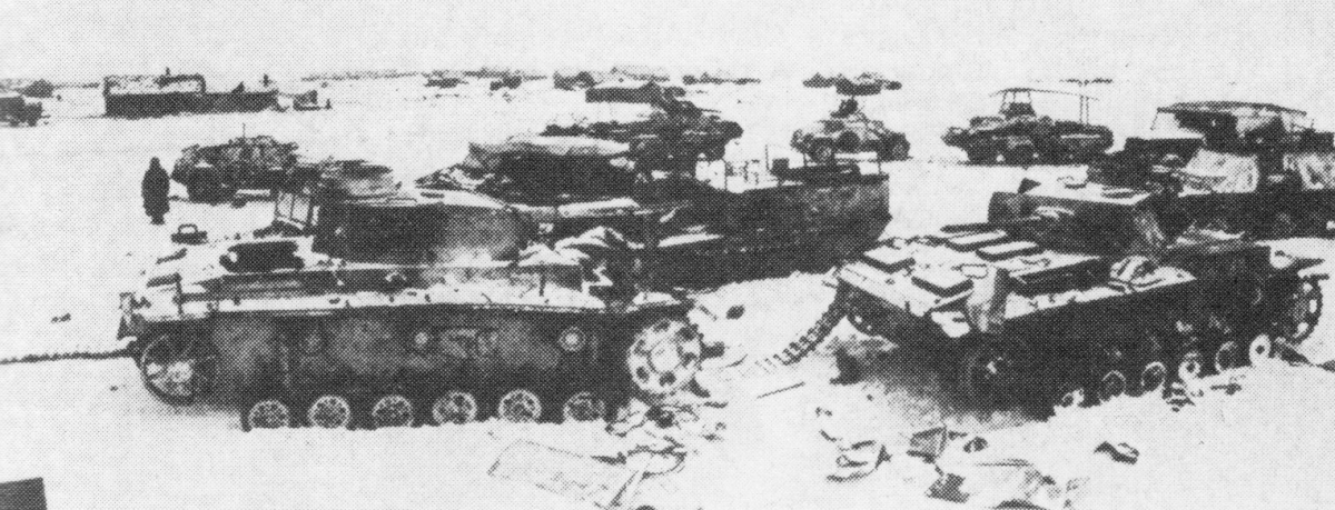 German military equipment destroyed in Stalingrad